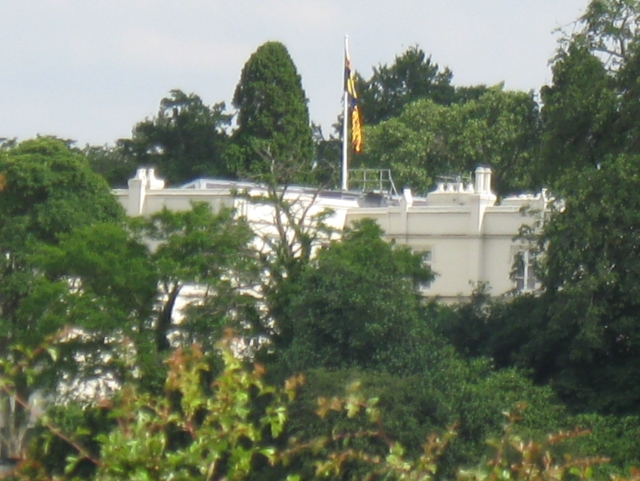 Royal Lodge, Windsor Great Park.